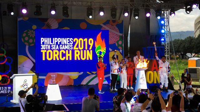 Presidential Assistant for the Visayas Secretary Michael Lloyd Dino together with Cebu City Mayor Edgar Labella and the athletes who brought pride to the country lead the lighting of the games’ cauldron at the Cebu South Coastal Road, Cebu City for the Cebu leg of the 30th SEA Games Torch Run. (PIA7)